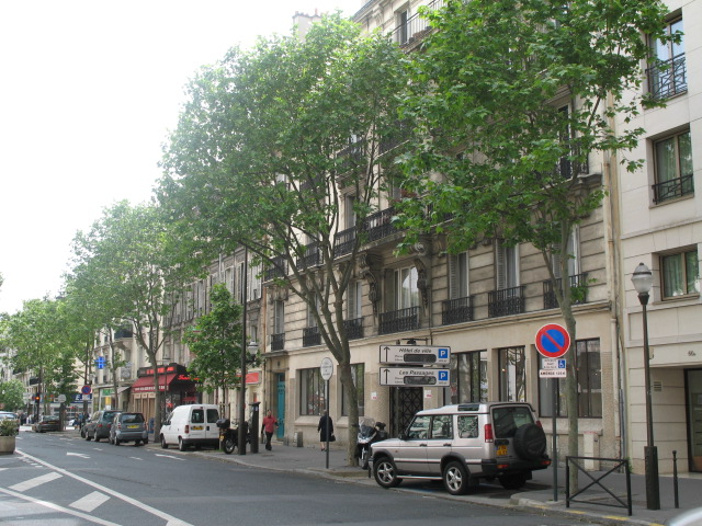 Typical street in Boulogne. (Author: Metropolitan)